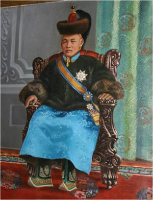 20th Setsen Khan Tserendondovyn Navaanneren (1877-1937) as Minister of Justice and 'Mahasamadi Dalai Setsen Khan' during the Bogd Khaganate (1911-1919) in Mongolia. In 'Neyislel Khuriye' ('Capital Camp', now Ulaanbaatar, capital of Mongolia).